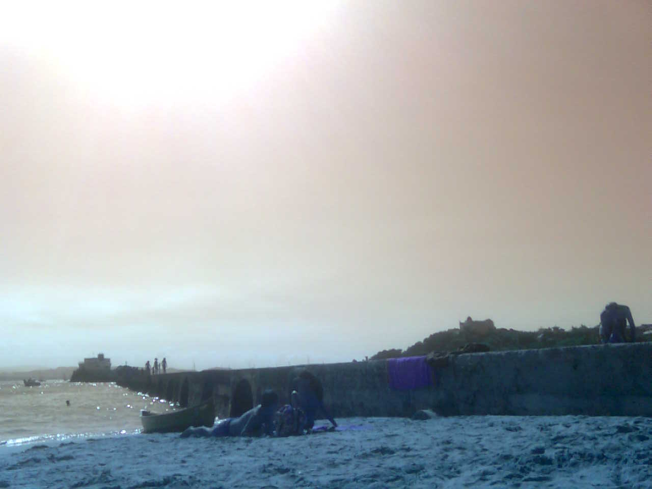 Espigón de la Playa de los Bikinis con la Isla de la Torre a la izquierda y el Hotel Real al fondo.